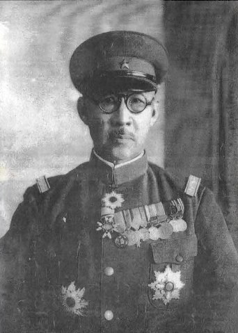 Manchukou general Urzhin Garmaev